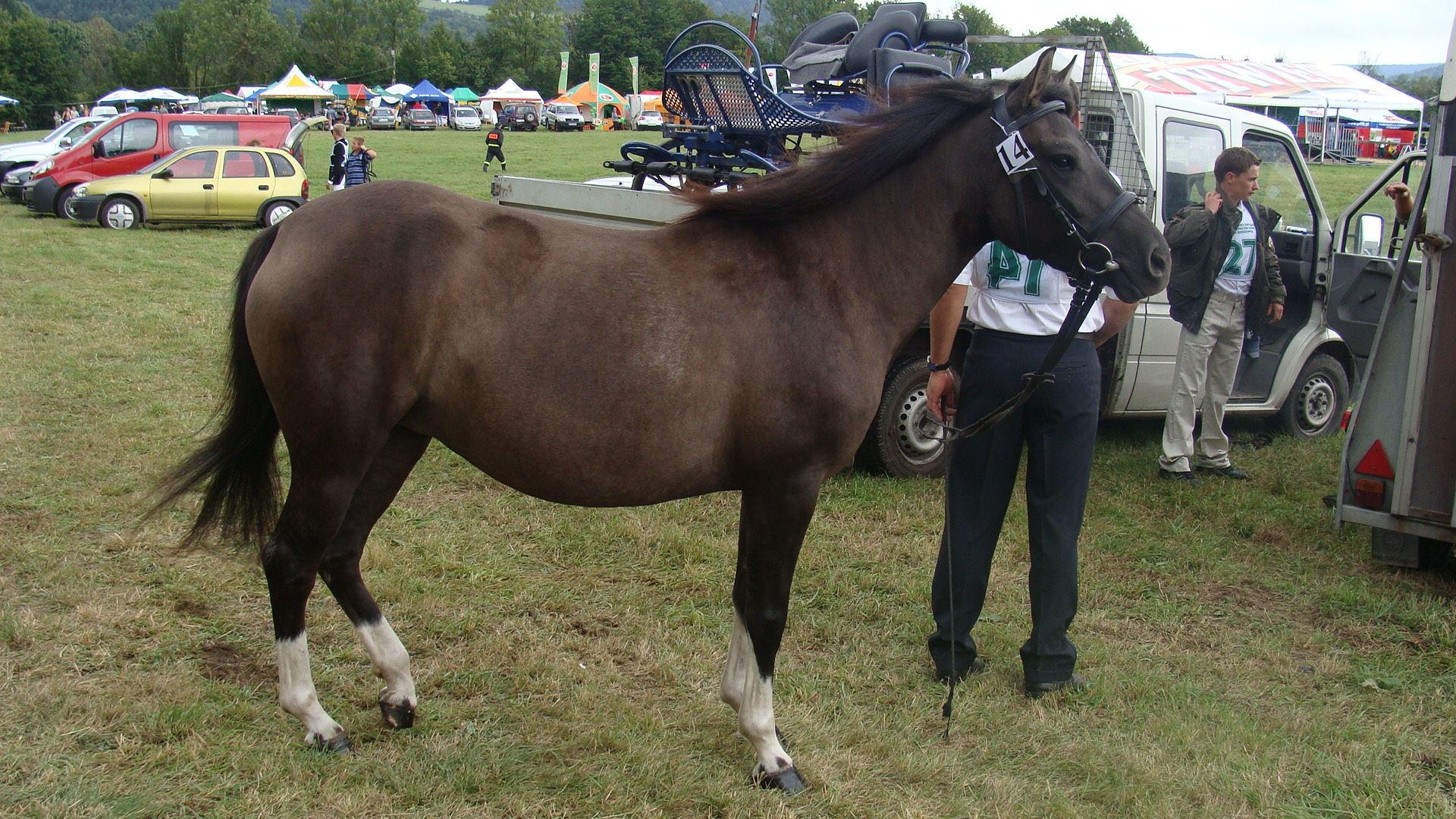 The Regional Pony Rally in Rudawka Rymanowska, (pl.) Regionalny Championat Konia Huculskiego will attract riders and their ponies from several states to compete in Tetrathlon, Show Jumping, Dressage, and Eventing. Included with park admission.